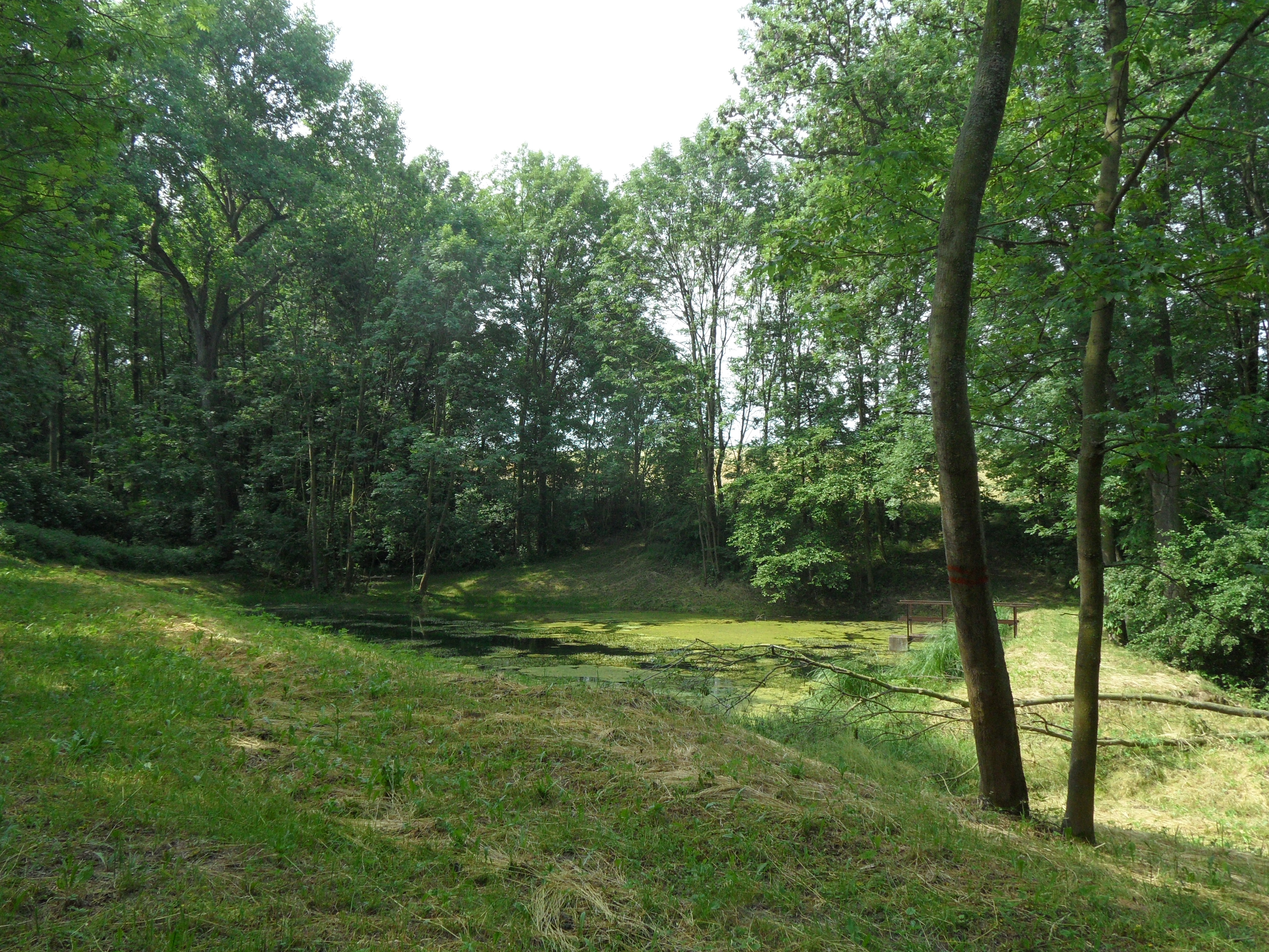 National Natural Monument Rybníček u Hořan C. Overview of Small Pond from South-East. Kutná Hora District, the Czech Republic.